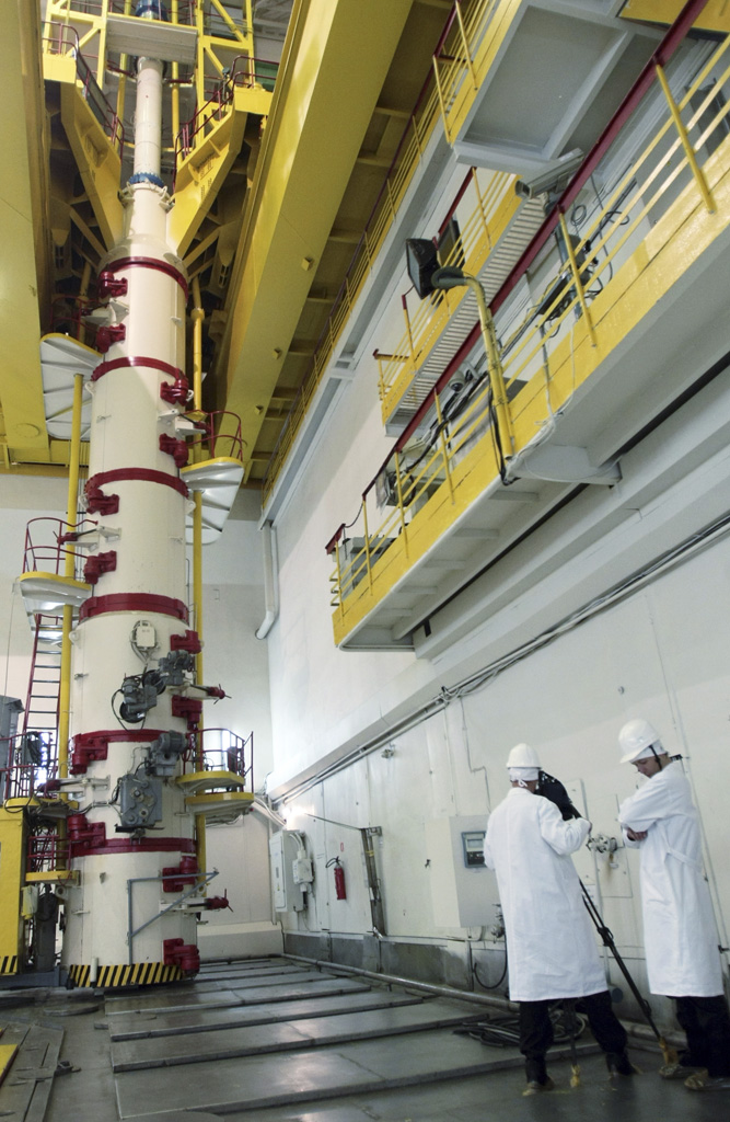 “Leningradskaya nuclear power plant”. Staff of the Leningradskaya nuclear power plant at the nuclear reactor room. Leningradskaya nuclear power plant is based on the shore of the Gulf of Finland in the town of Sosnovy Bor.